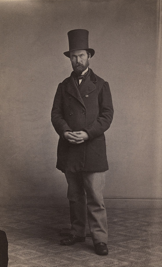 Tittel / Title: Portrett av Aasmund Olavsson Vinje Motiv / Motif: Visittkort. Dato / Date: ukjent / unknown Fotograf / Photographer: Claus Knudsen (1826-1896) Sted / Place: Oslo Eier / Owner Institution: Nasjonalbiblioteket / National Library of Norway Lenke / Link: Bildesignatur / Image Number: bldsa_FA0303